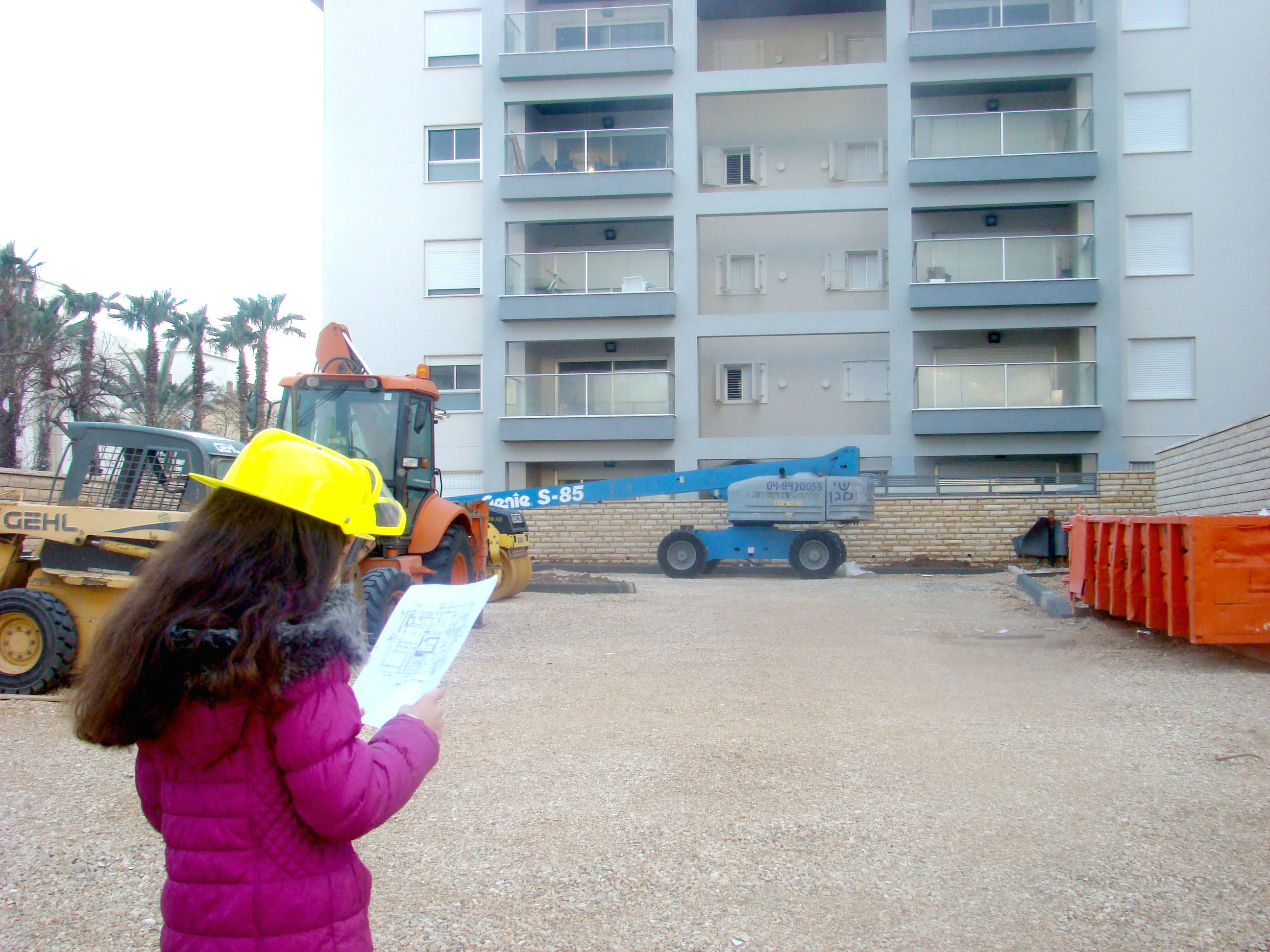 building engineer